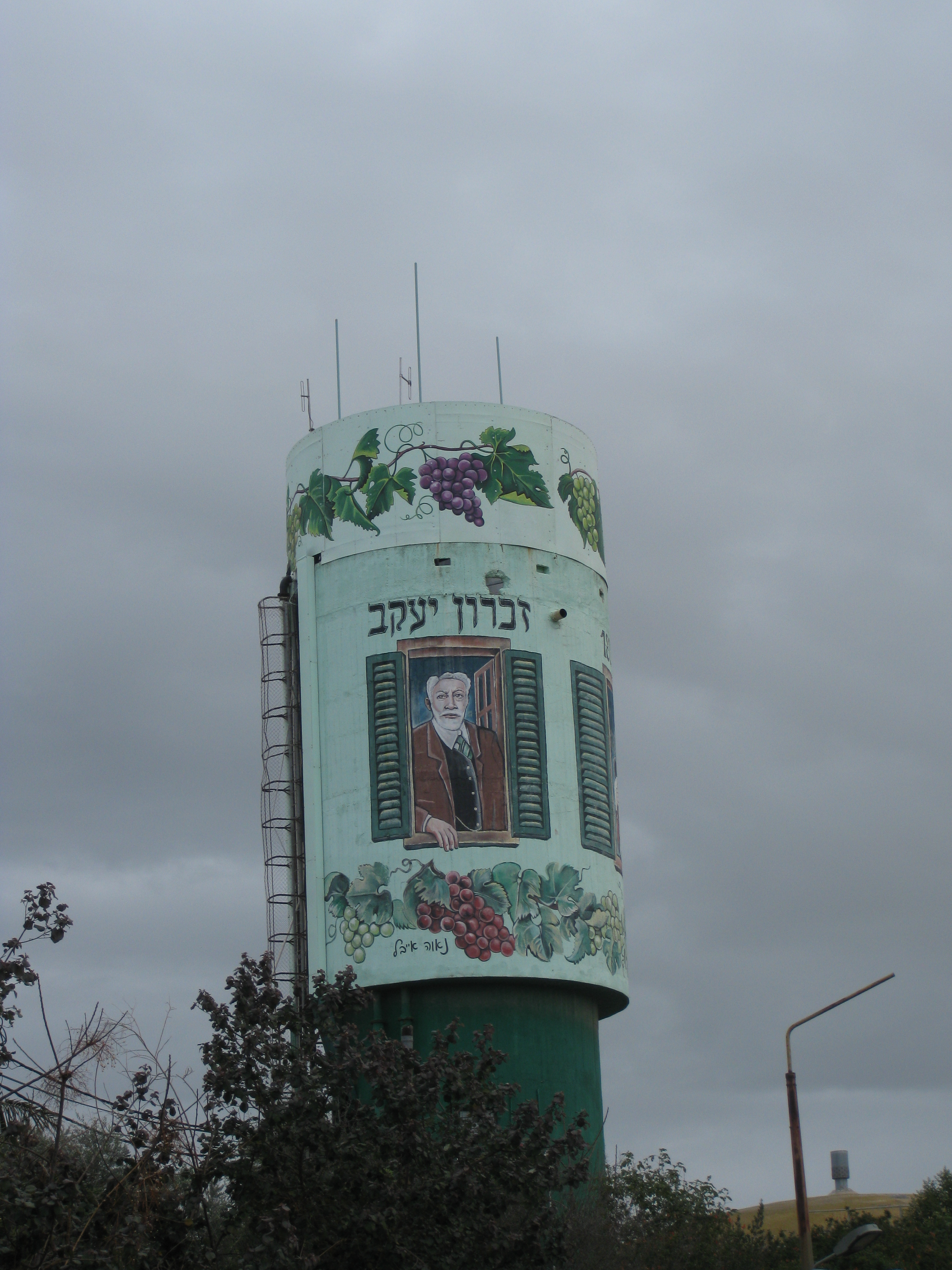 Zichron Yaacov water Tower